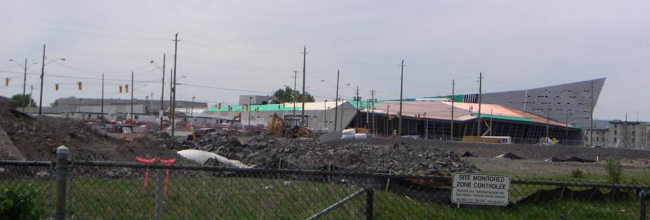 View of the new Canadian War Museum under construction at Lebreton Flats in Ottawa, Ontario, taken from the Pathway near the Fleet Street pumping station. Photo credit: RealGrouchy Capture date: May 31, 2004 Location: Lebreton Flats; Ottawa, Ontario